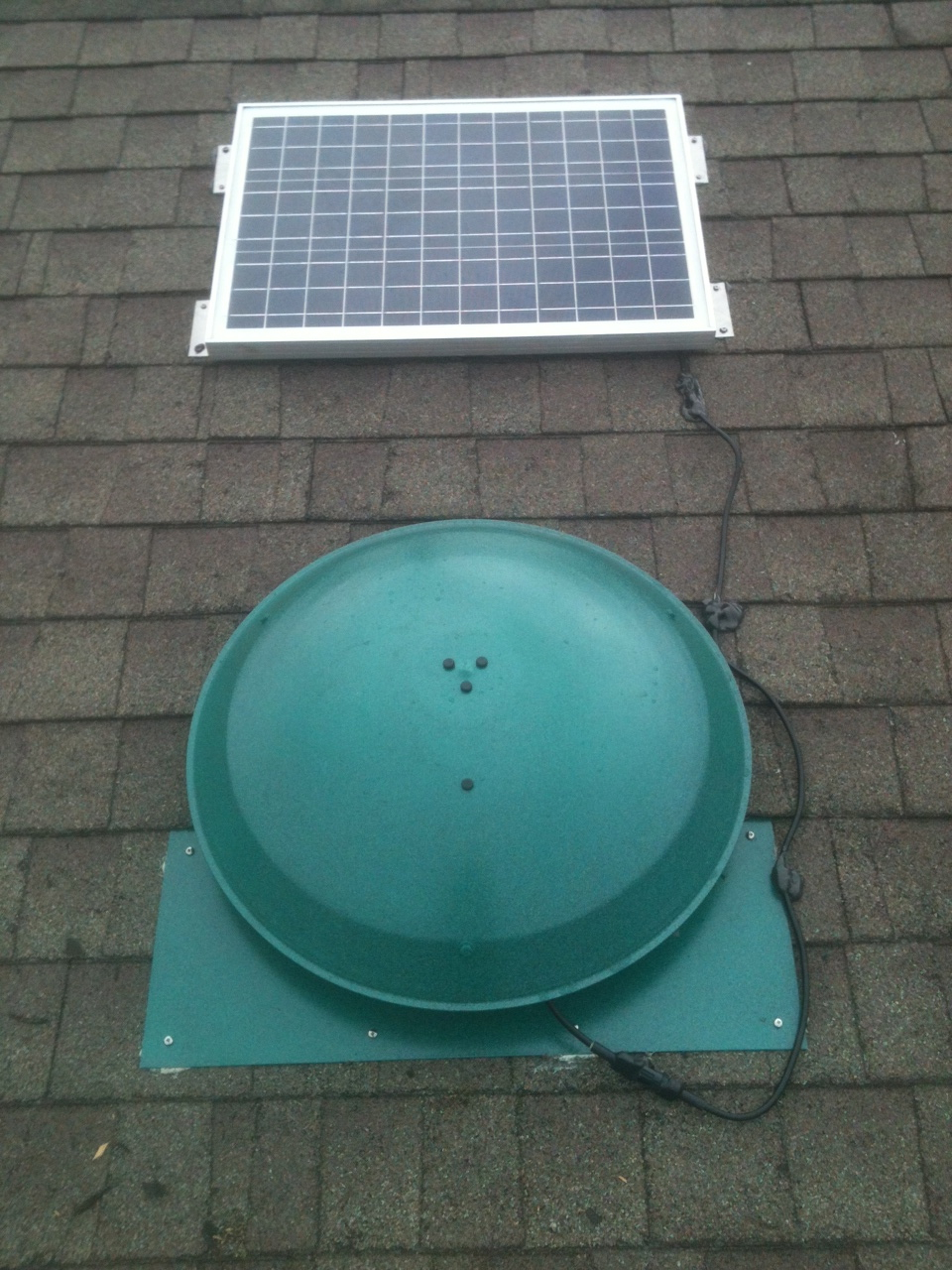 Solar Cool power attic exhaust vents have a lifetime warranty and move 10000 cu. ft. of air every 5-15 minutes. Installed by Certified Quality Roofing